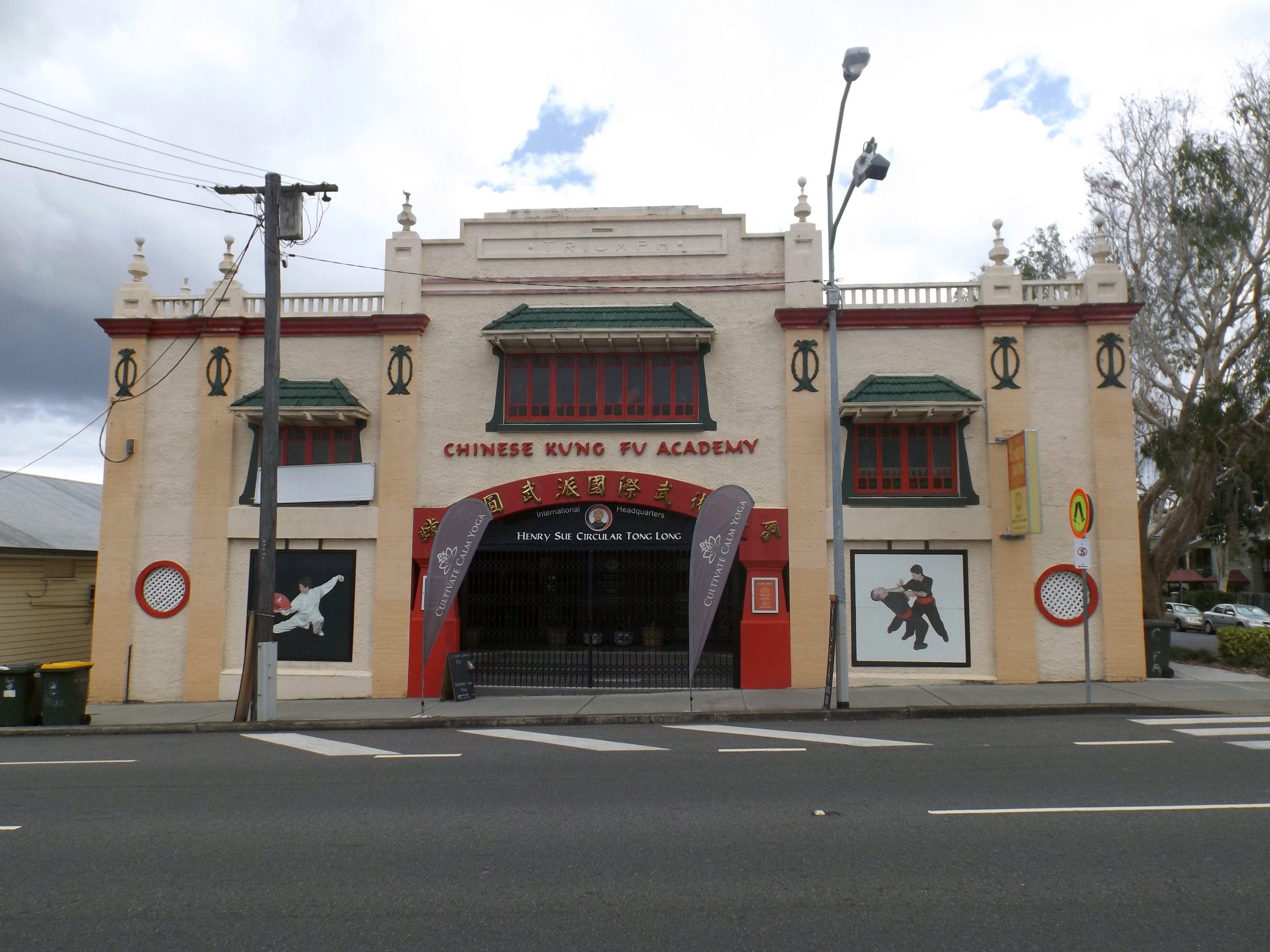 Photo of Classic Cinema or Triumph Cinema at East Brisbane, Brisbane, Queensland, Australia.